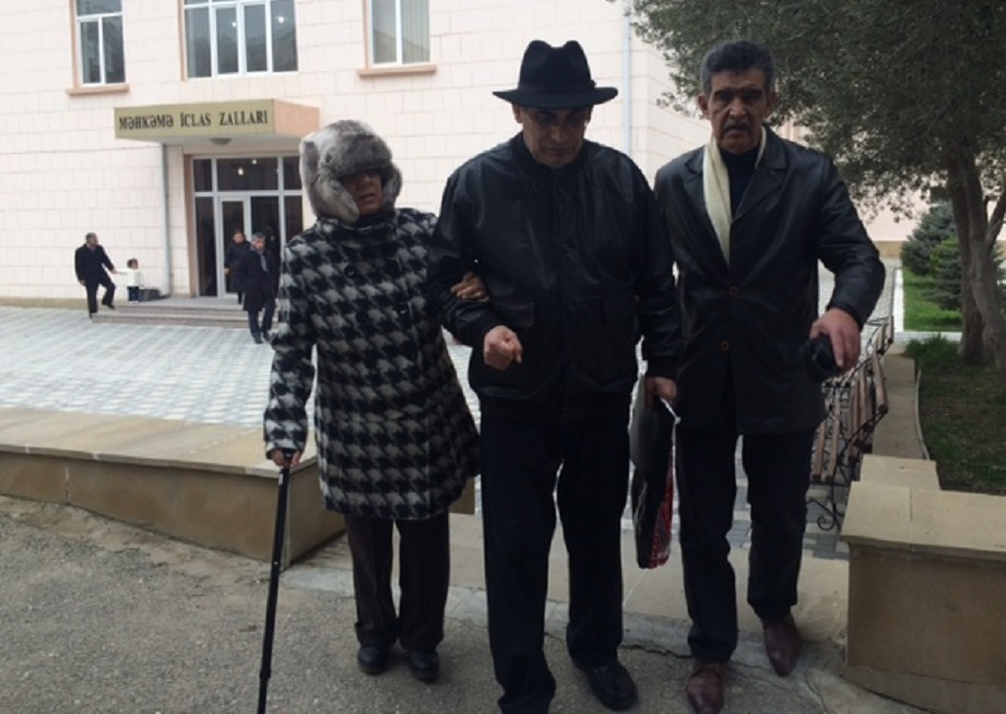 Leyla Yunus (Left), head of the Institute for Peace and Democracy, and her husband, Arif Yunus (Middle), head of the institute's department.